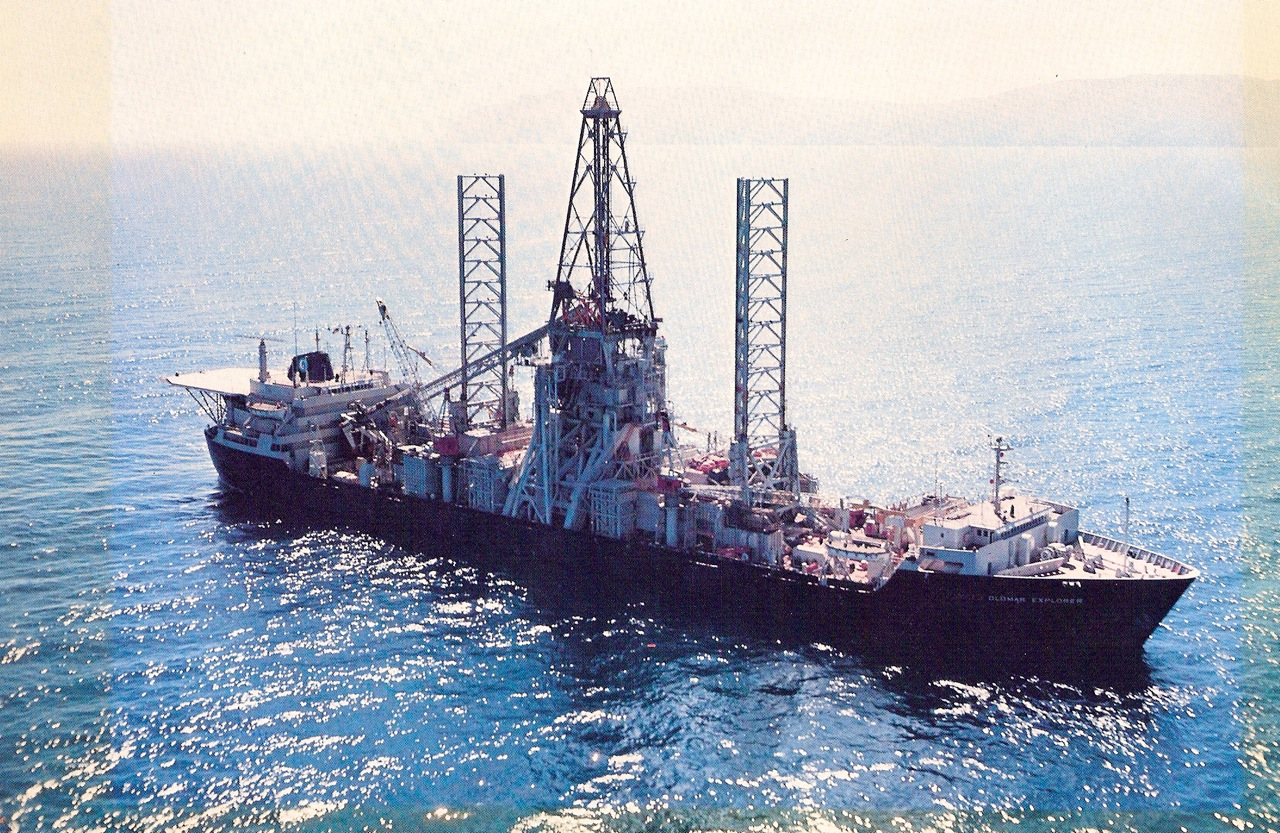 Color photo of the Hughes Glomar Explorer